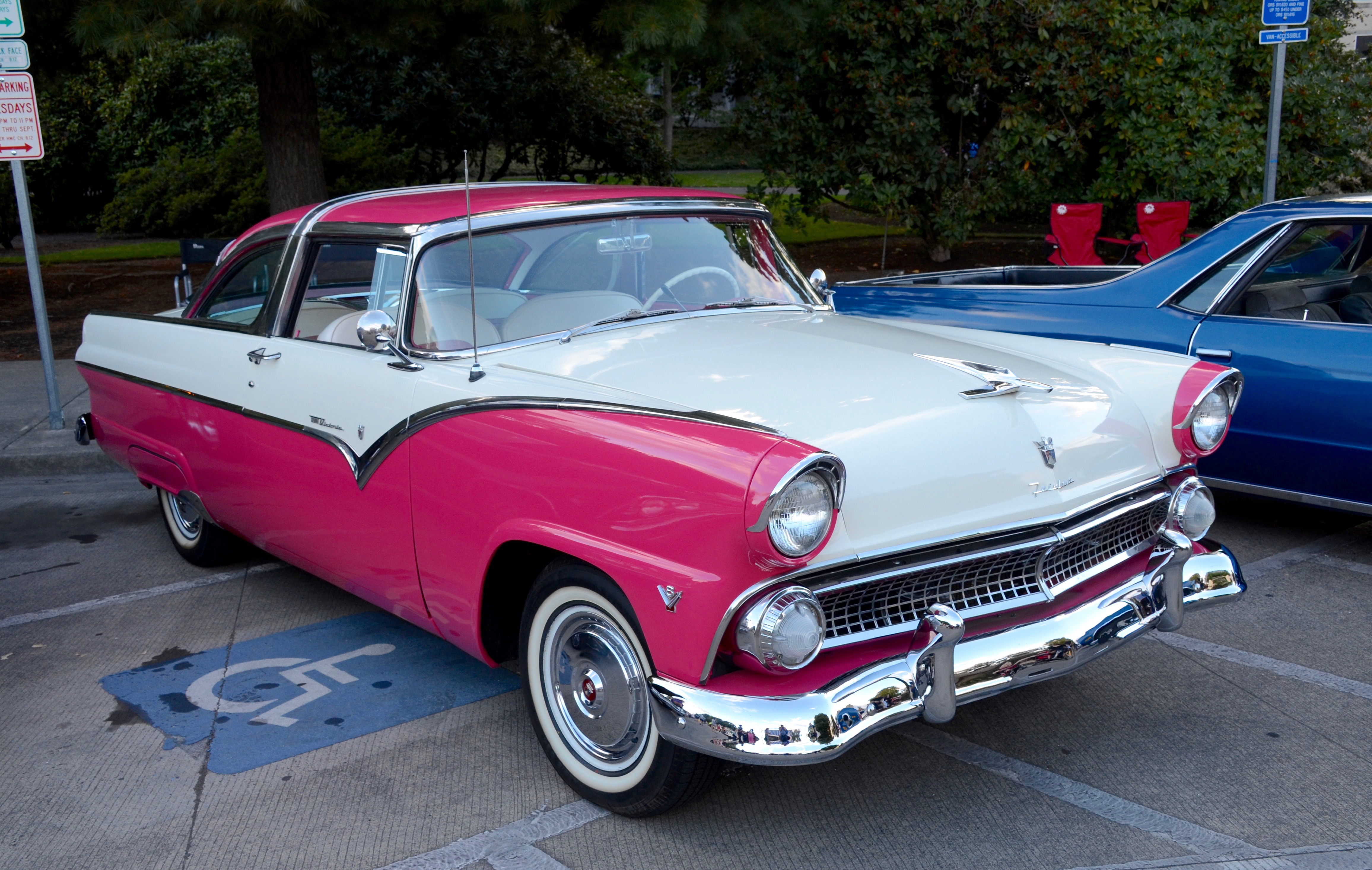 A 1955 Ford Fairlane Crown Victoria in the "Tropical Rose" paint scheme, on display on 2nd Avenue in downtown Hillsboro, Oregon, at the Tuesday Market that is held weekly during summer months - and always includes vintage cars on display.